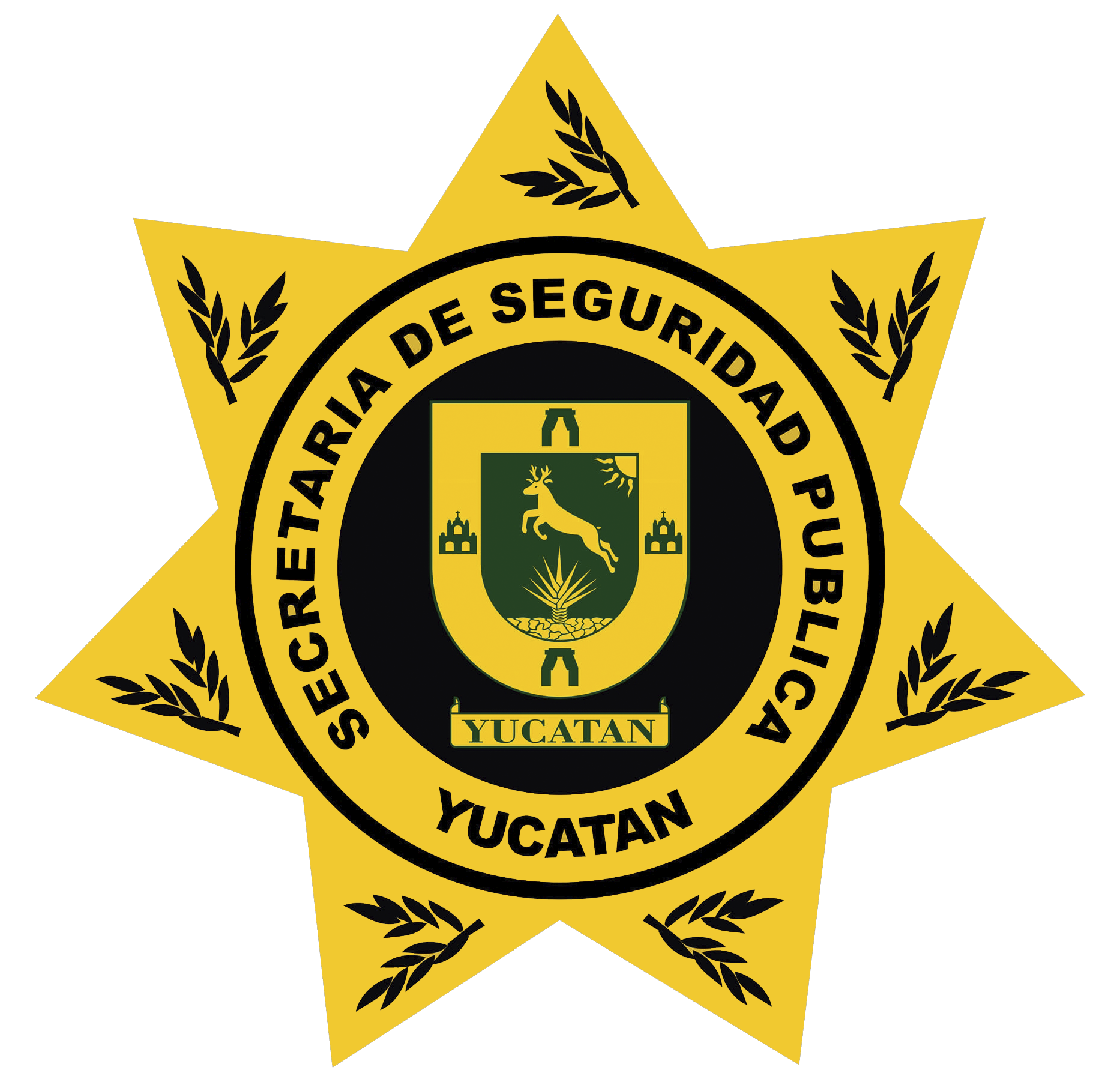 Seal of the Secretariat of Public Safety of the State of Yucatán.